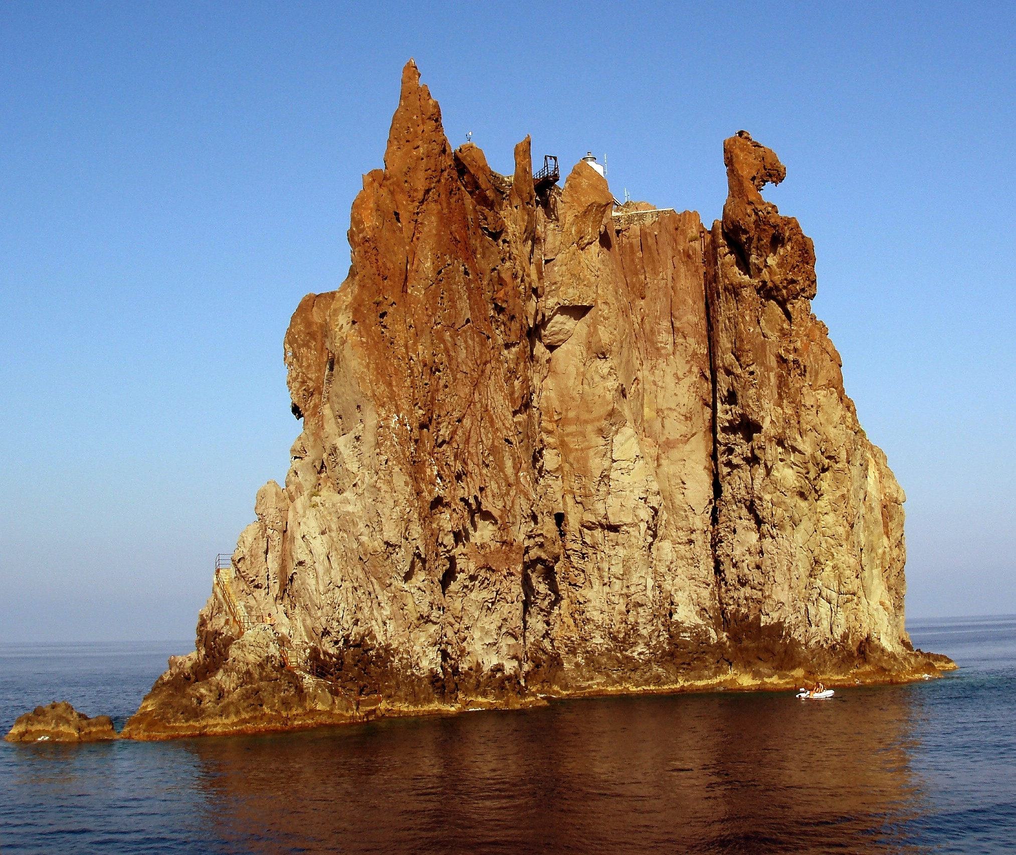 The Strombolicchio near Stromboli Island in Southern Italy (Eolie)